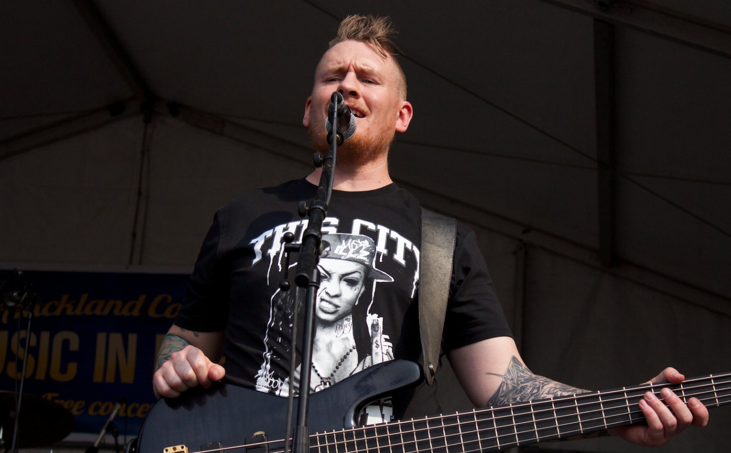 Paul Matthews performing with I Am Giant 2013